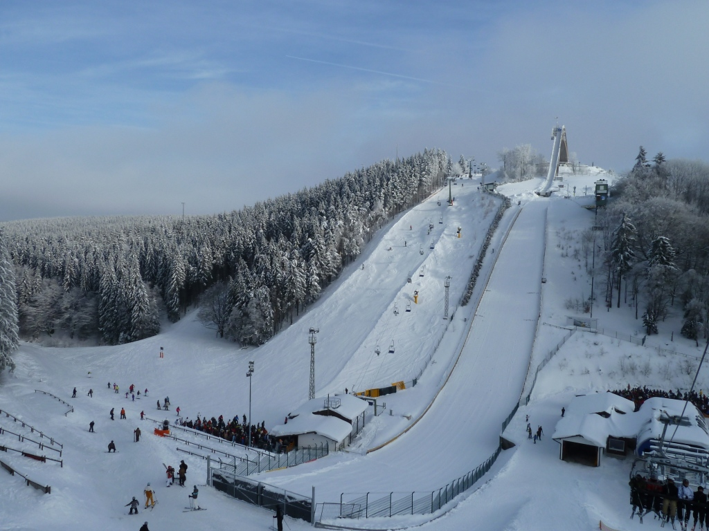 The skiing area "Skiliftkarussell" in Winterberg, Germany, with St. Georg ski jump, left to it a double-seater chairlift serving two skiing slopes marked as black (experts only). Photo was taken out of "Quick Jet", a high-speed six-seater chairlift, ascending the Poppenberg hill.